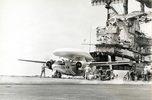 A U.S. Navy Grumman E-1B Tracer of Carrier Airborne Early Warning Squadron VAW-111 Det. 31 "Hunters" about to be launched from the aircraft carrier USS Bon Homme Richard (CVA-31). VAW-11 Det. 31 was assigned to Attack Carrier Air Wing 5 (CVW-5) aboard the Bon Homme Richard for a deployment to the Western Pacific and Vietnam from 27 January to 10 October 1968.